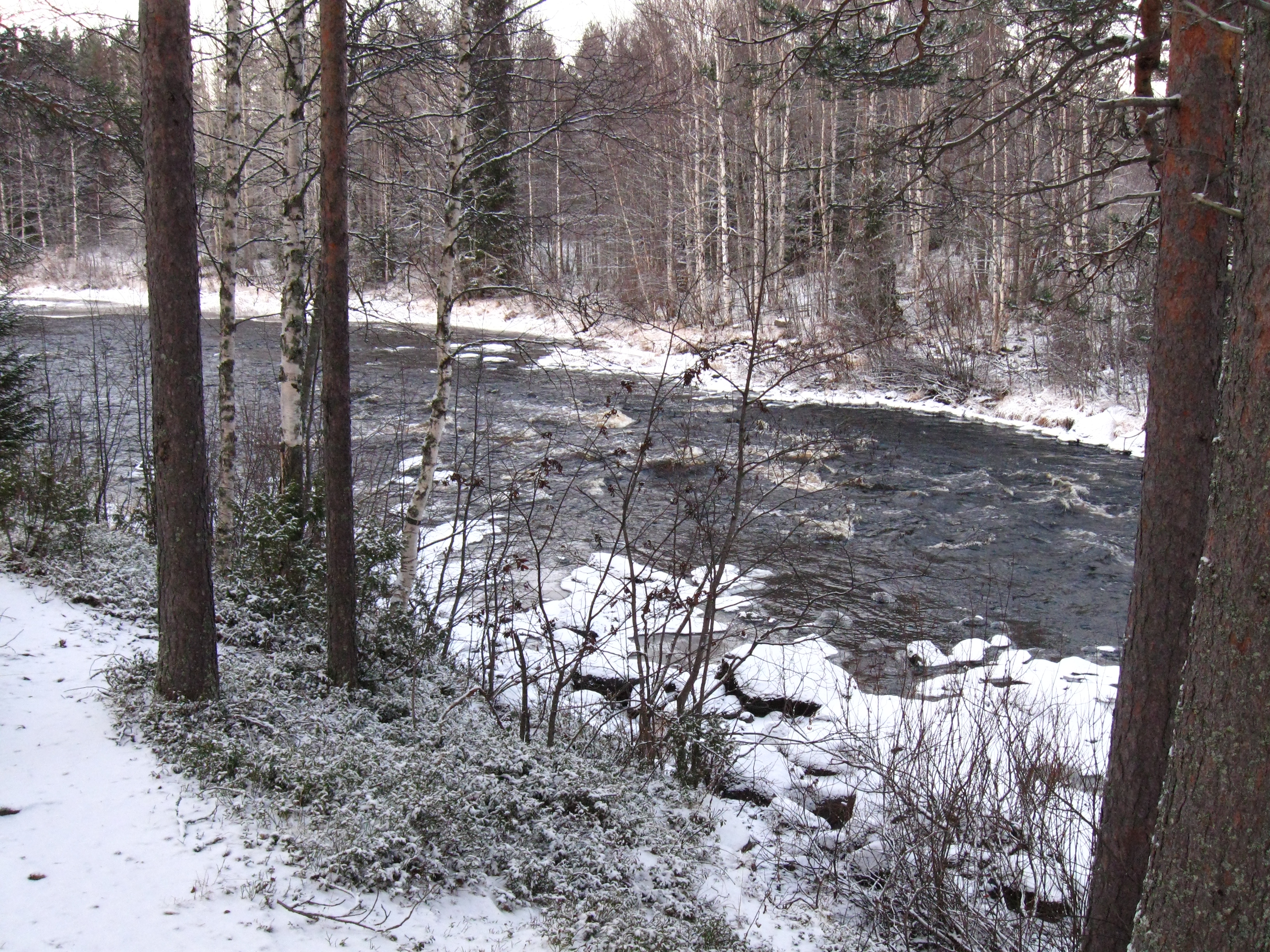 The Inninkoski white water rapids in Kiiminkijoki in Yli-Vuotto, Ylikiiminki, Finland.